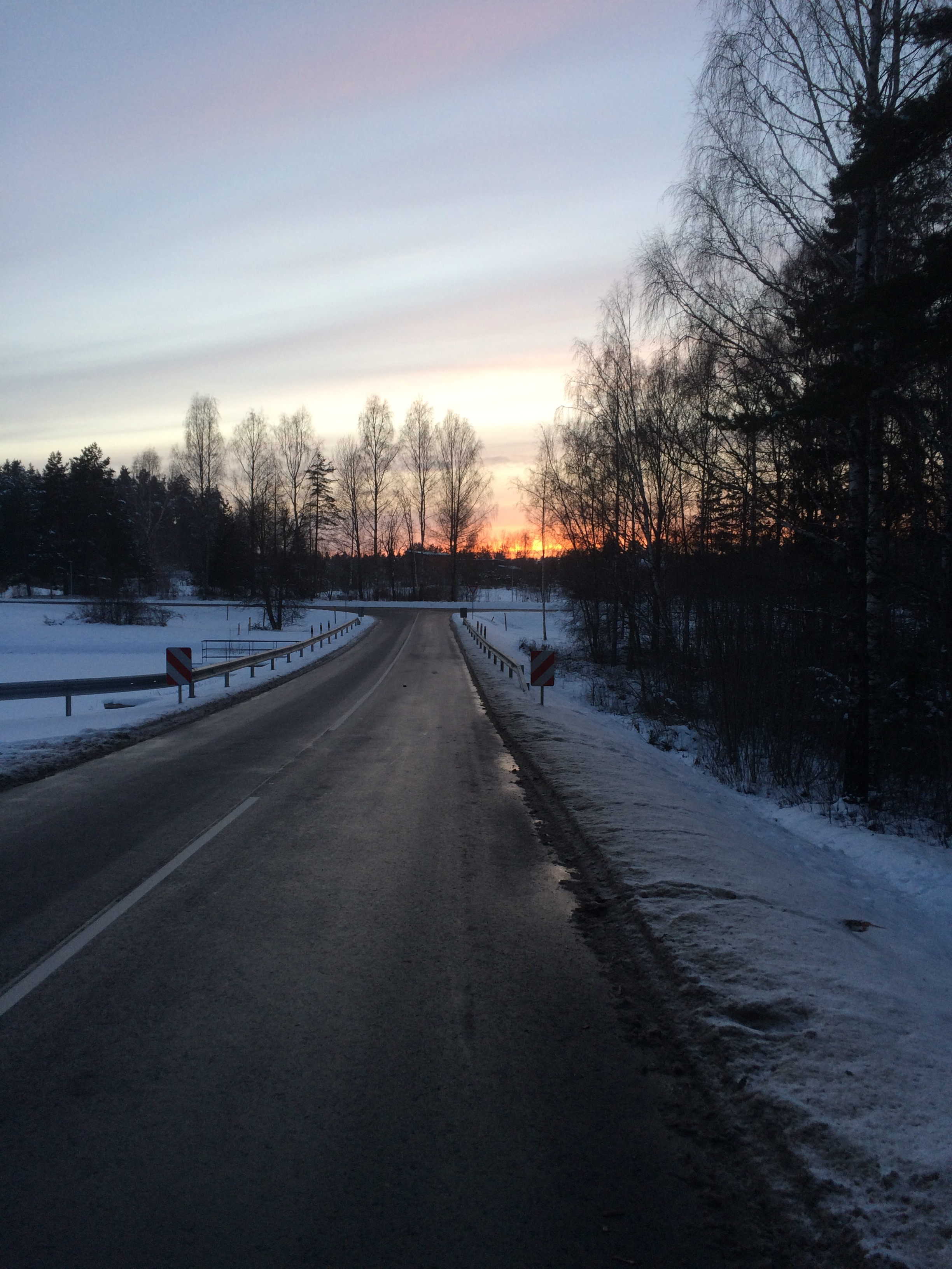 Road on Launkalne parrish